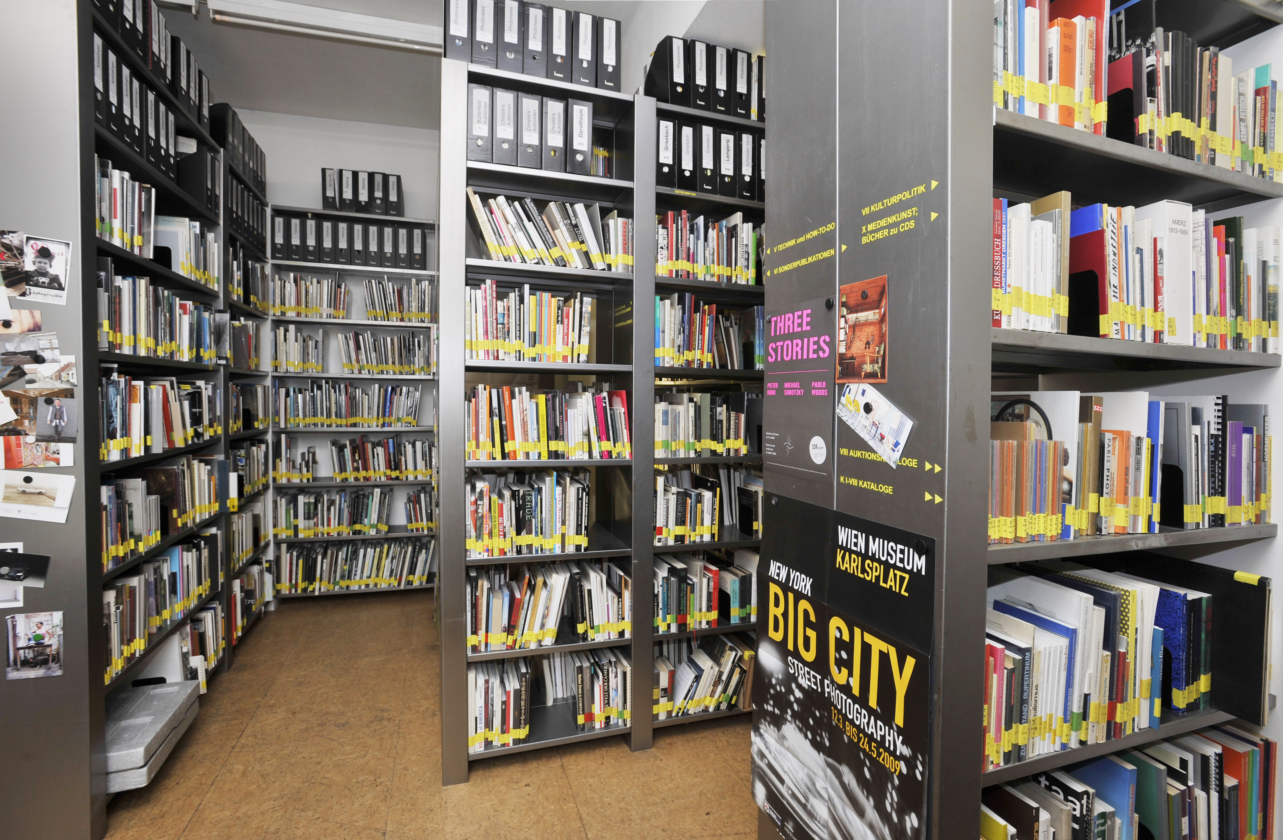 view of the library of the fotohof gallery